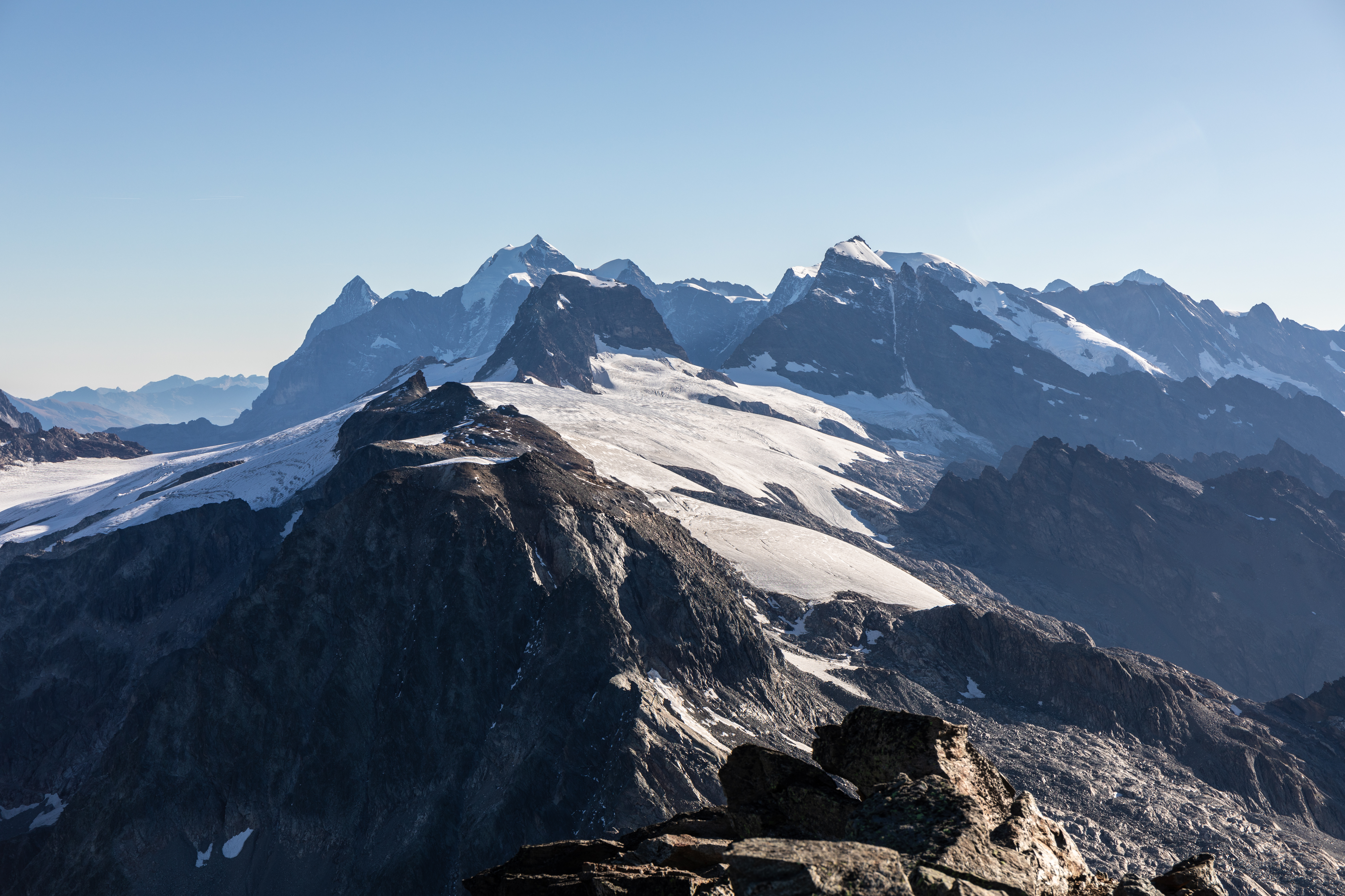 View east from the summit of the Hockenhorn towards Jungfrau and Eiger